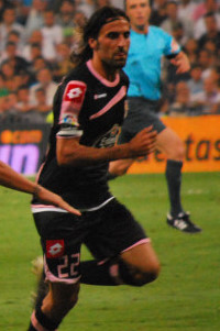 Juan Antonio Rodríguez Villamuela playing for Deportivo, 29 August 2009